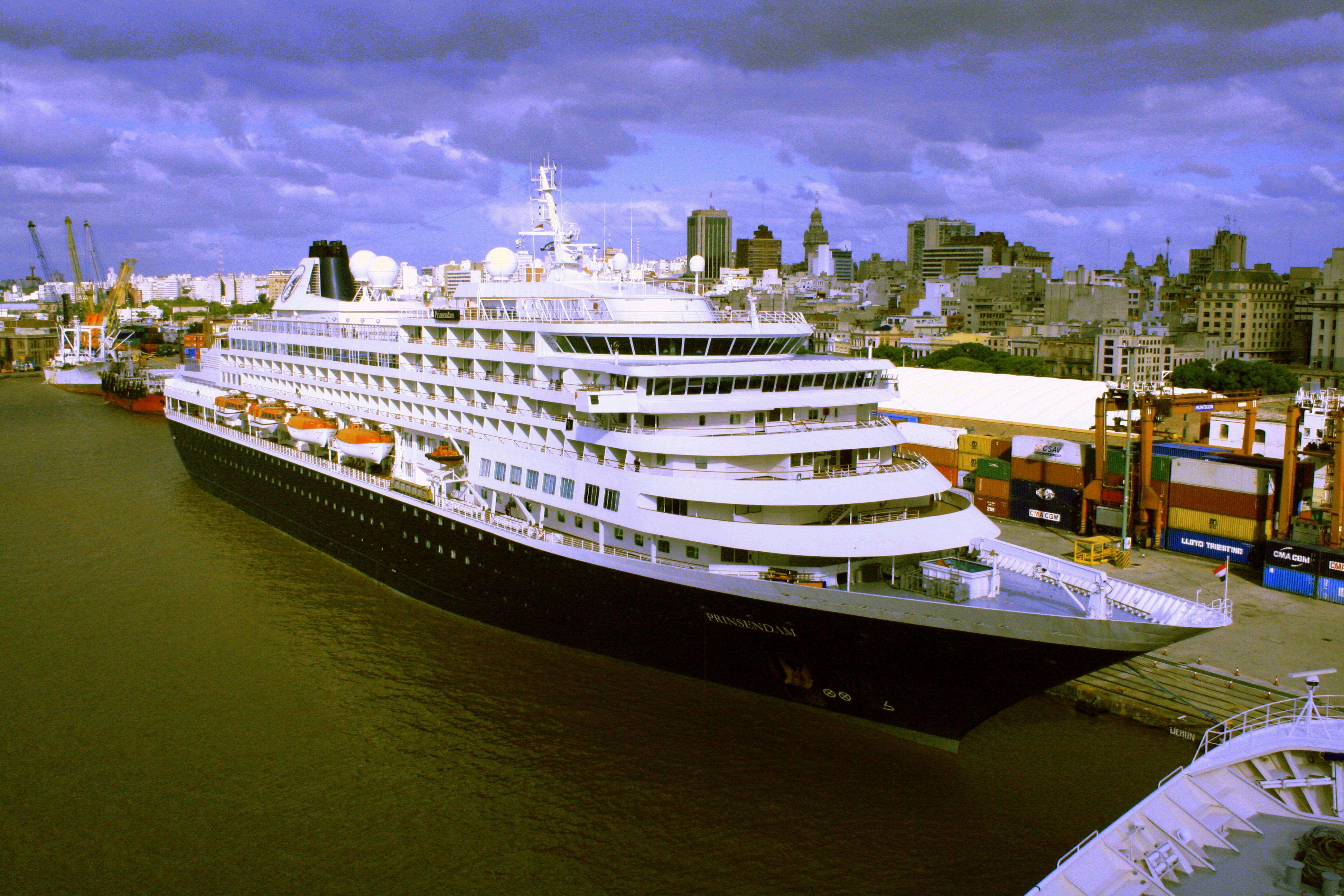 Prinsendam at the port of Montevideu (Uruguay)